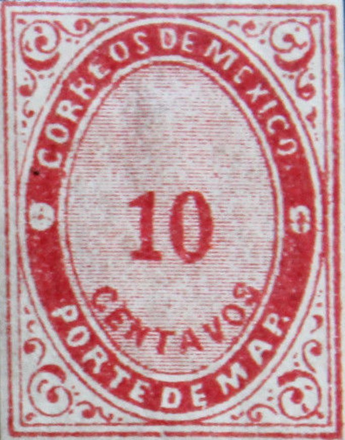 Mexico - porte de mar - 1879 - Type 3 - 50c